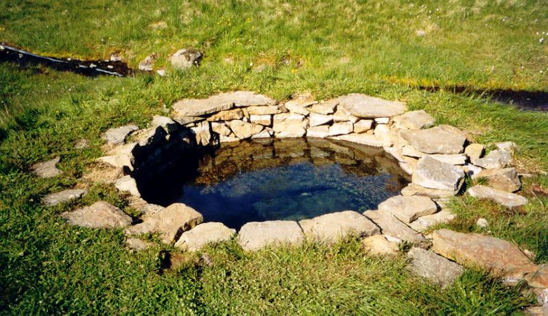 Gvendarlaug í Bjarnarfirði - "This is a small constructed bathing pool called Gvendarlaug (Guðmundur's pool) in Bjarnarfjörður, the Westfjords, Iceland, that receives hot water from a hot spring nearby. It is probably medieval and is a protected archeological site. It is one of many pools, wells, etc. said to have been blessed by bishop Guðmundur the good (1160-1237). These sites were believed to have miraculous powers, as Guðmundur was a popular saint (never actually canonized though). Right below this pool, there is a modern swimming pool, that gets its water from the same source and is also called Gvendarlaug." --Akigka 23:55, 26 July 2005 (UTC)